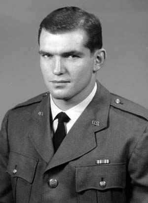 First Lieutenant Lance P. Sijan in front of a F=4 Phantom II aircraft.